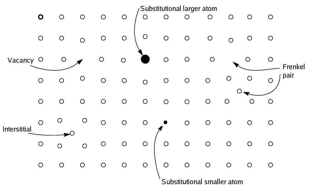 Schematic illustration of some simple point defect types in a monatomic solid. Kai Nordlund, originally made for M. Sc. thesis in 1993 with FrameMaker, text changed to English in 2007 with gimp.